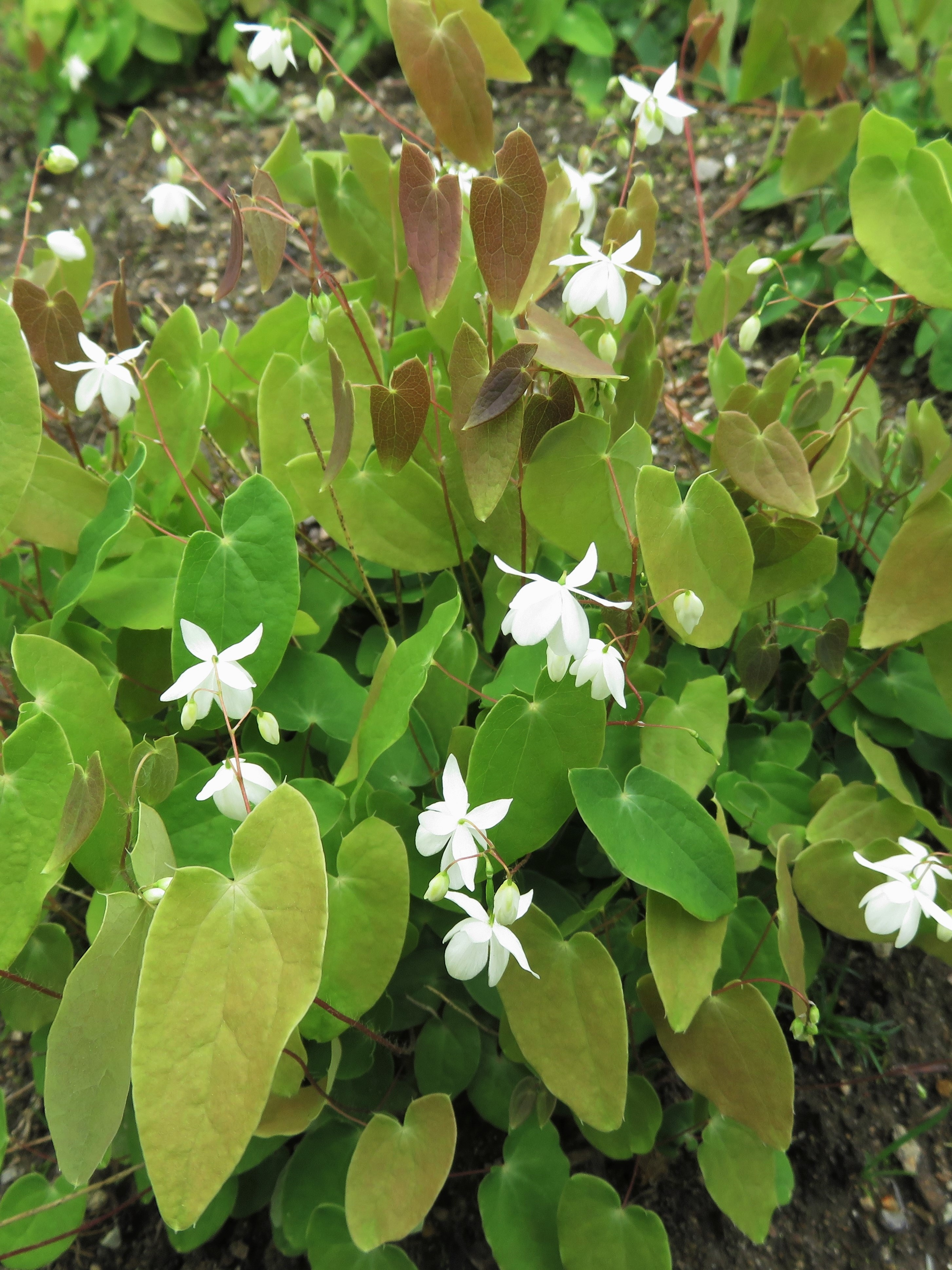 Epimedium diphyllum, Aizu Matsudaira's Royal Garden, Fukushima pref., Japan